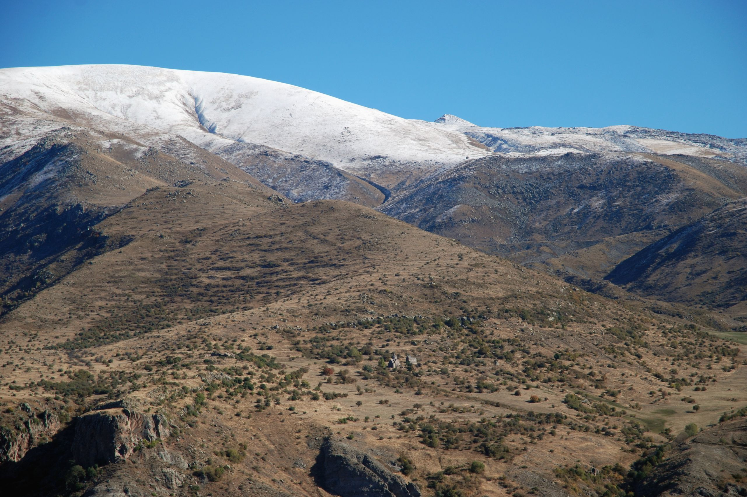 Tsakhats Kar, from Smbataberd